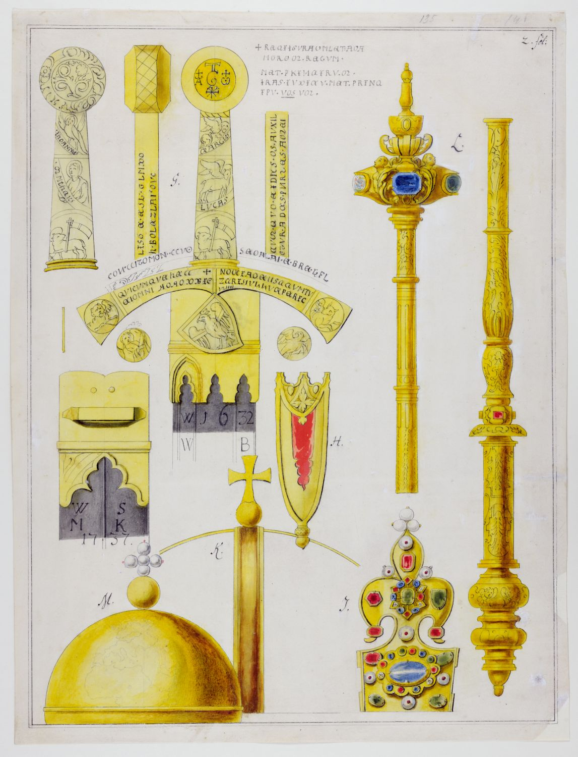 Detailed drawings of parts of the Polish crown jewels which were present at the coronation of King Stanisław August Poniatowski in 1764.